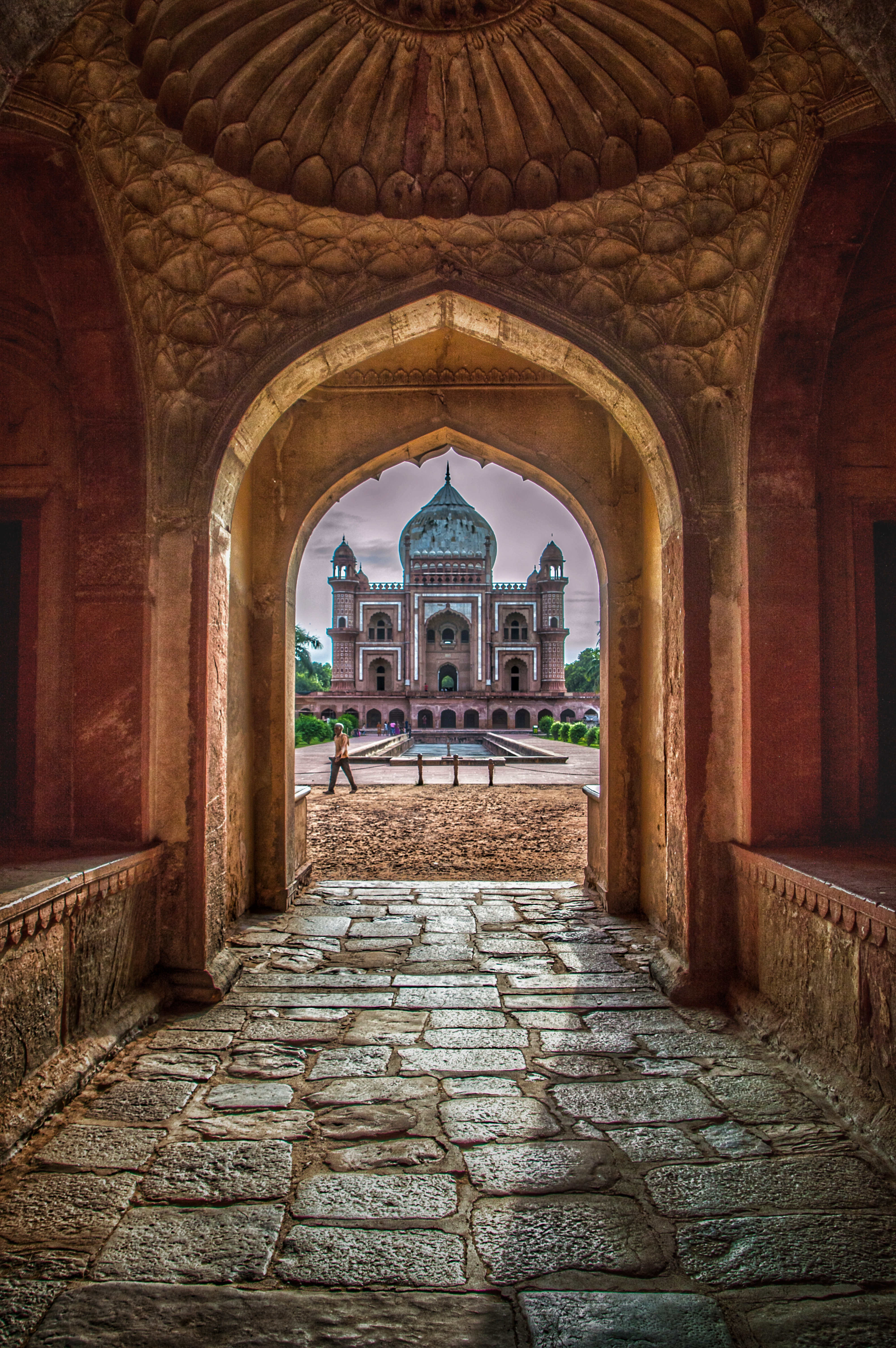 Safdarjang's Tomb viewed from the main entrance.